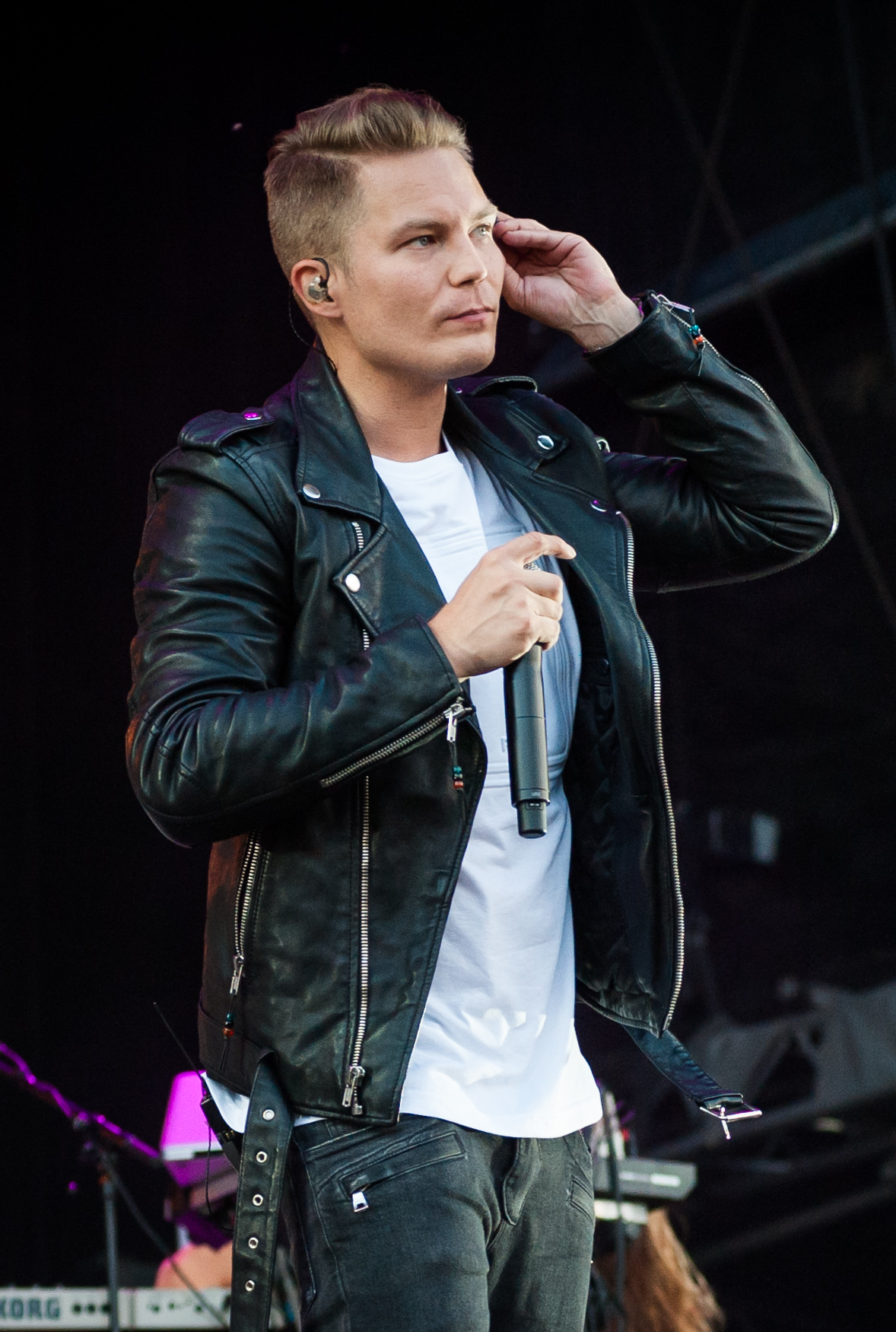 Finnish rapper Cheek performing at the Ilosaarirock festival in Joensuu, Finland.